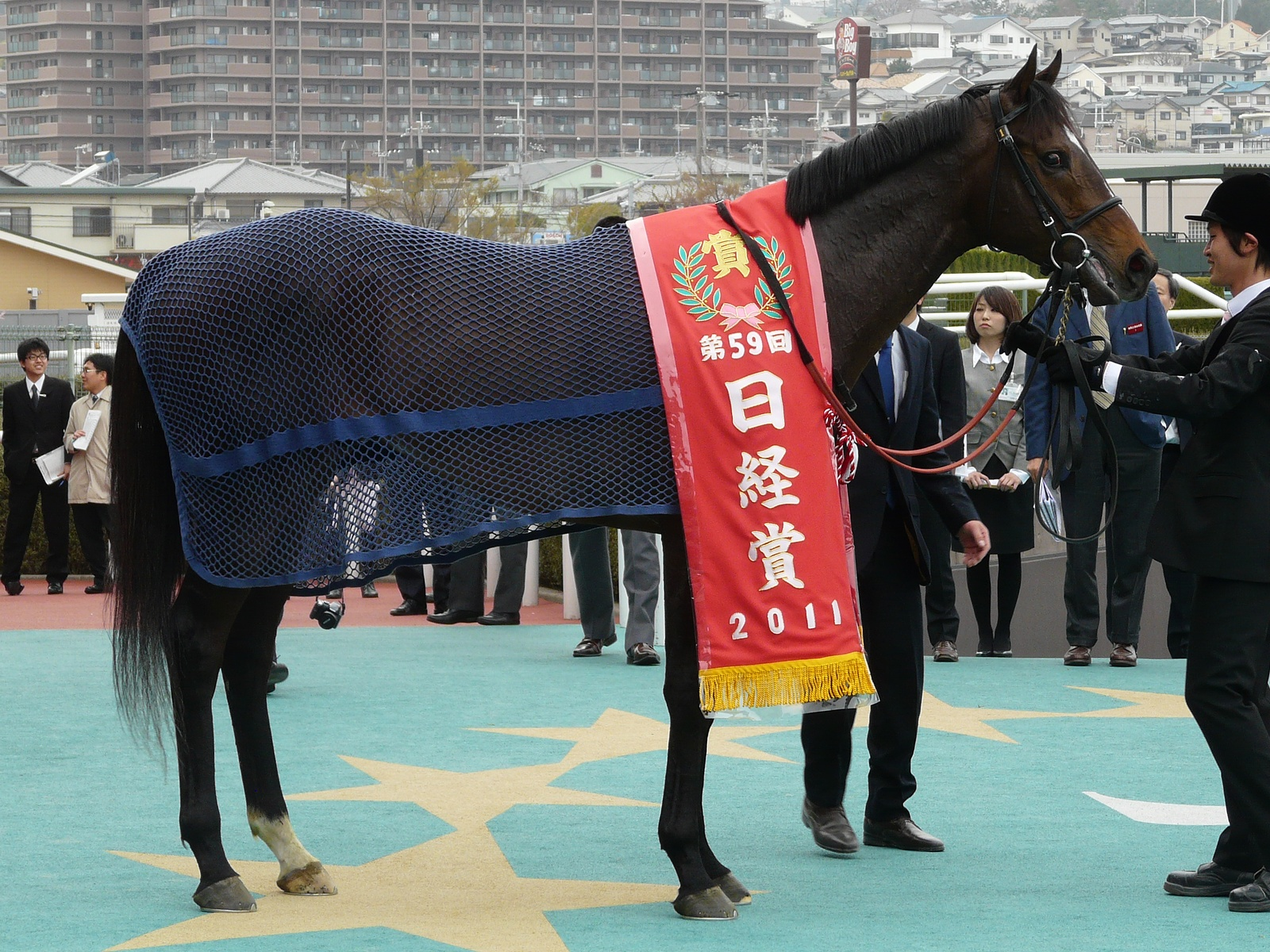 To-the-glory20110402